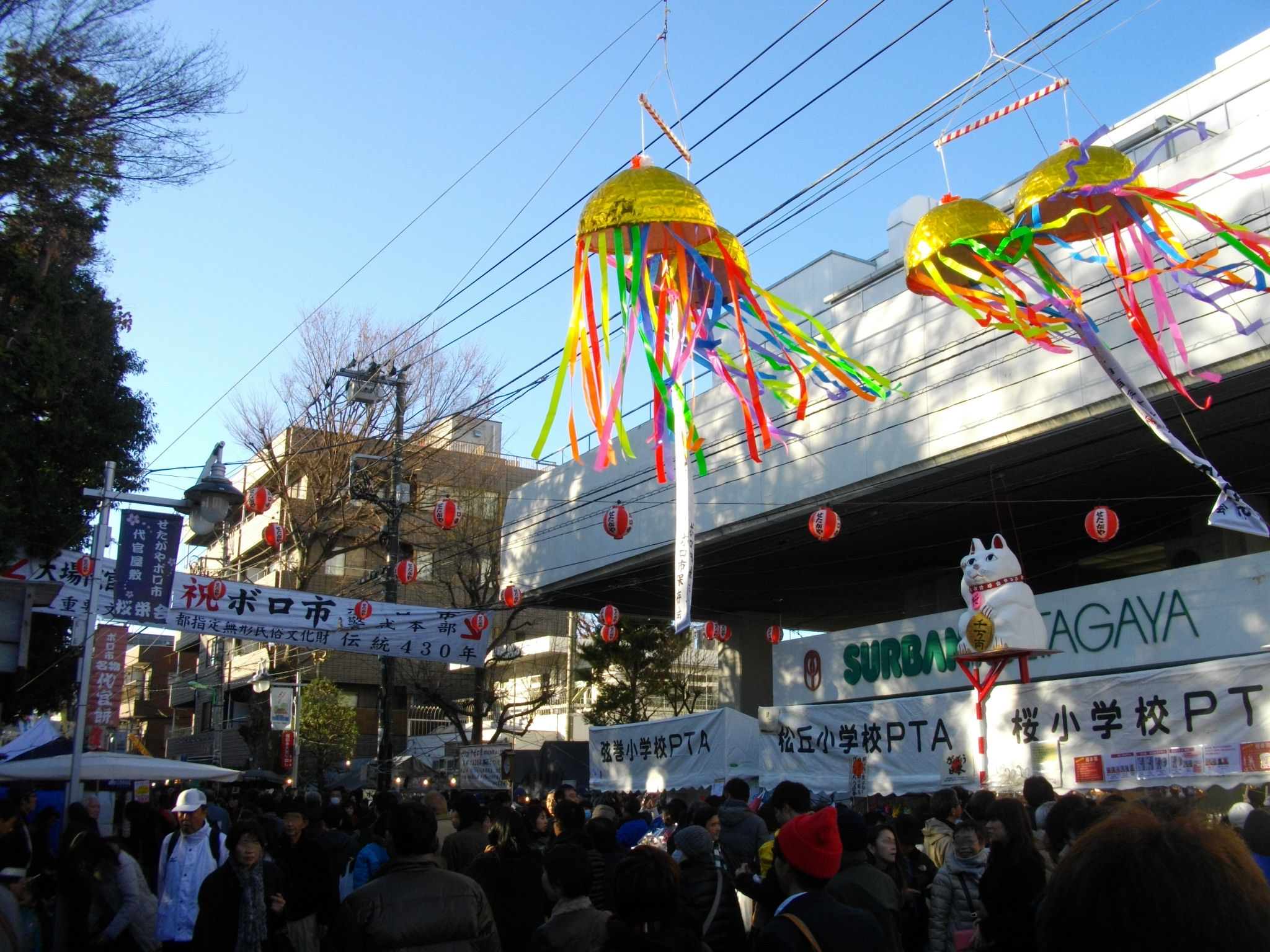 2012 Setagaya Boro-Ichi